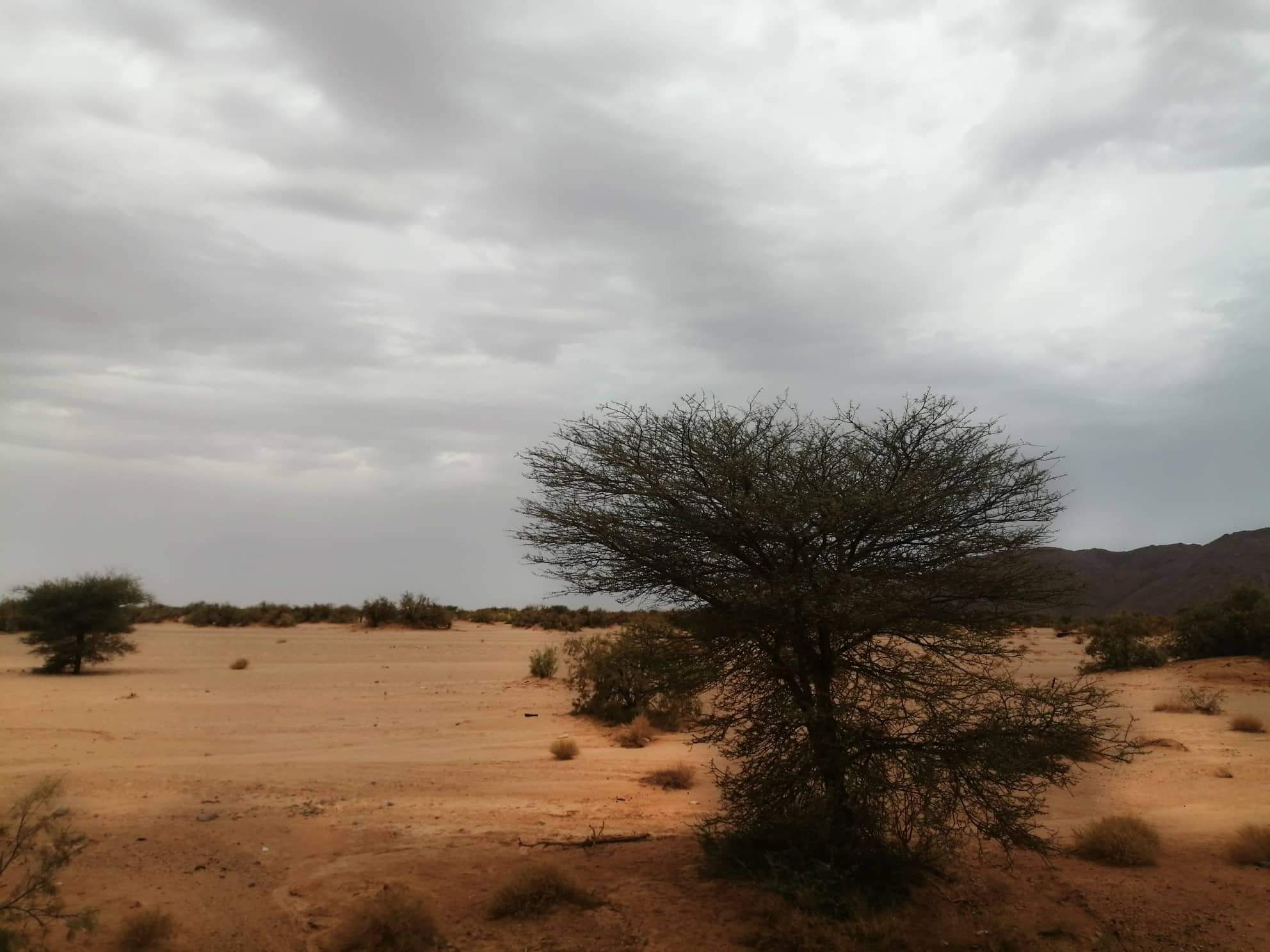 This is an image with the theme "Africa on the Move or Transport" from: Algeria